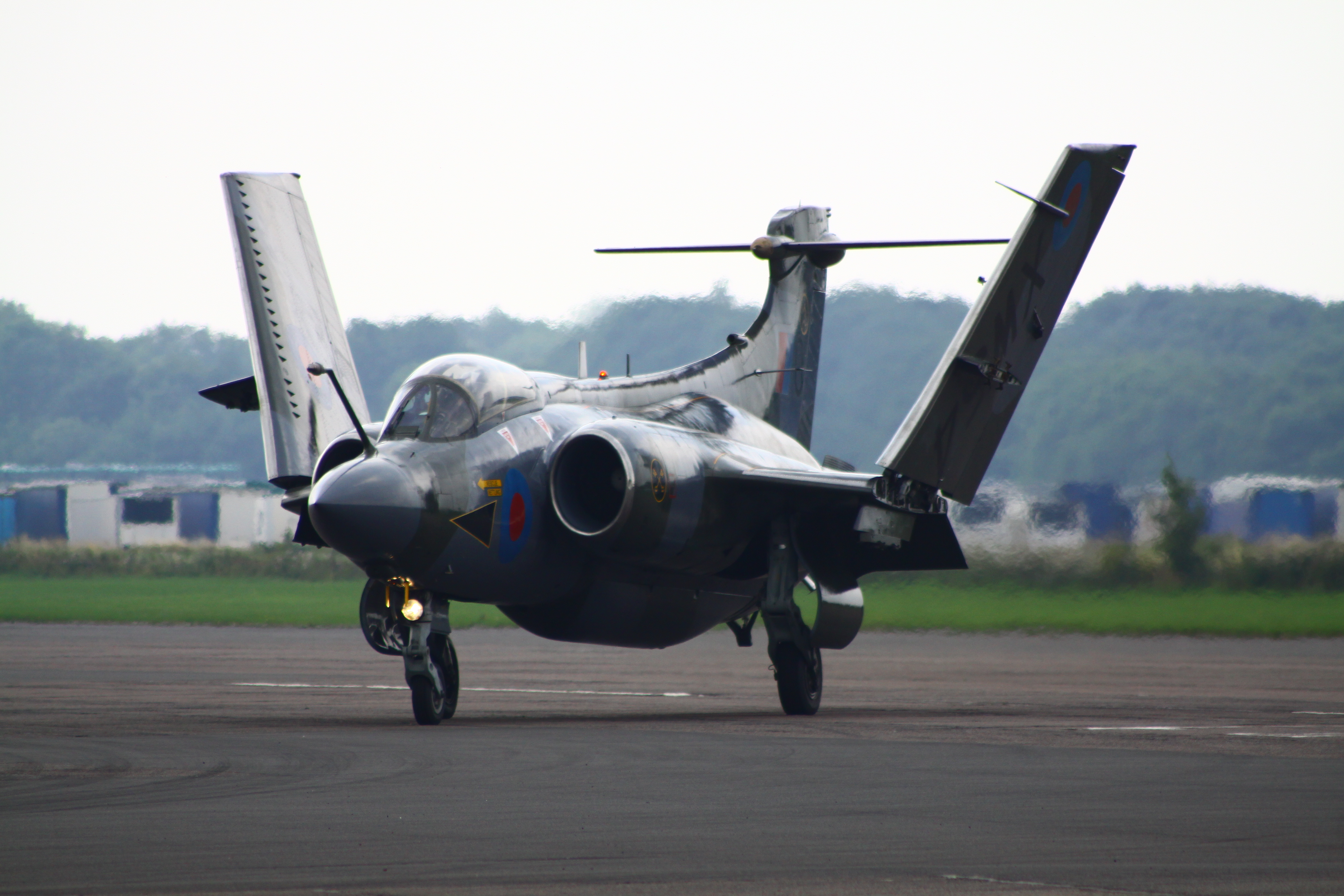 Buccaneer folding its wings for the crowd.